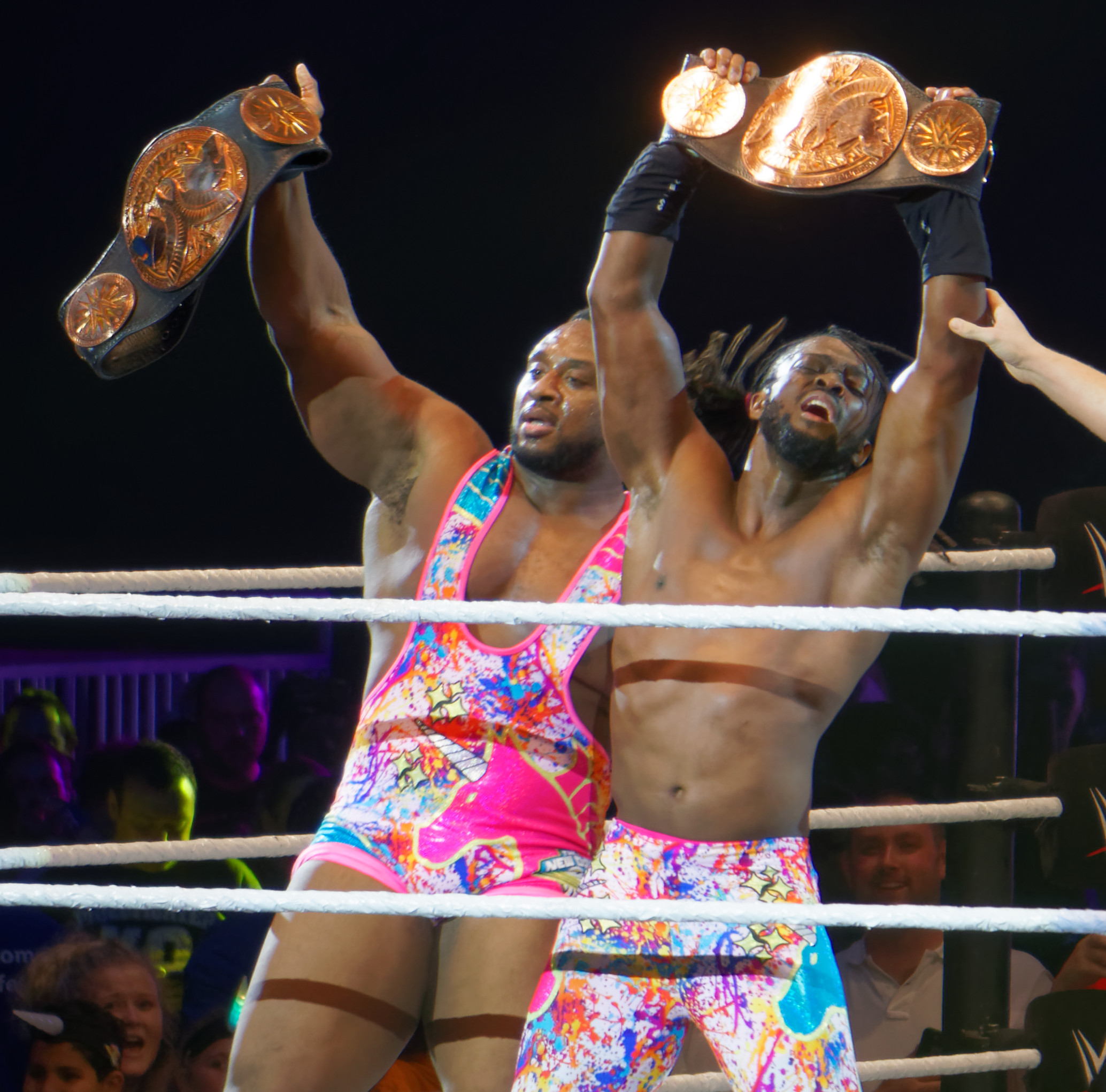 WWE Live returns to London this September Join Roman Reigns, Seth Rollins and more WWE Superstars at the 02 Arena for a one-night-only WWE Live in London on Wednesday, 7 Sept. Big E (c) & Kofi Kingston (c) def. (pin) Karl Anderson & Luke Gallows For : WWE Raw Tag Team Championship